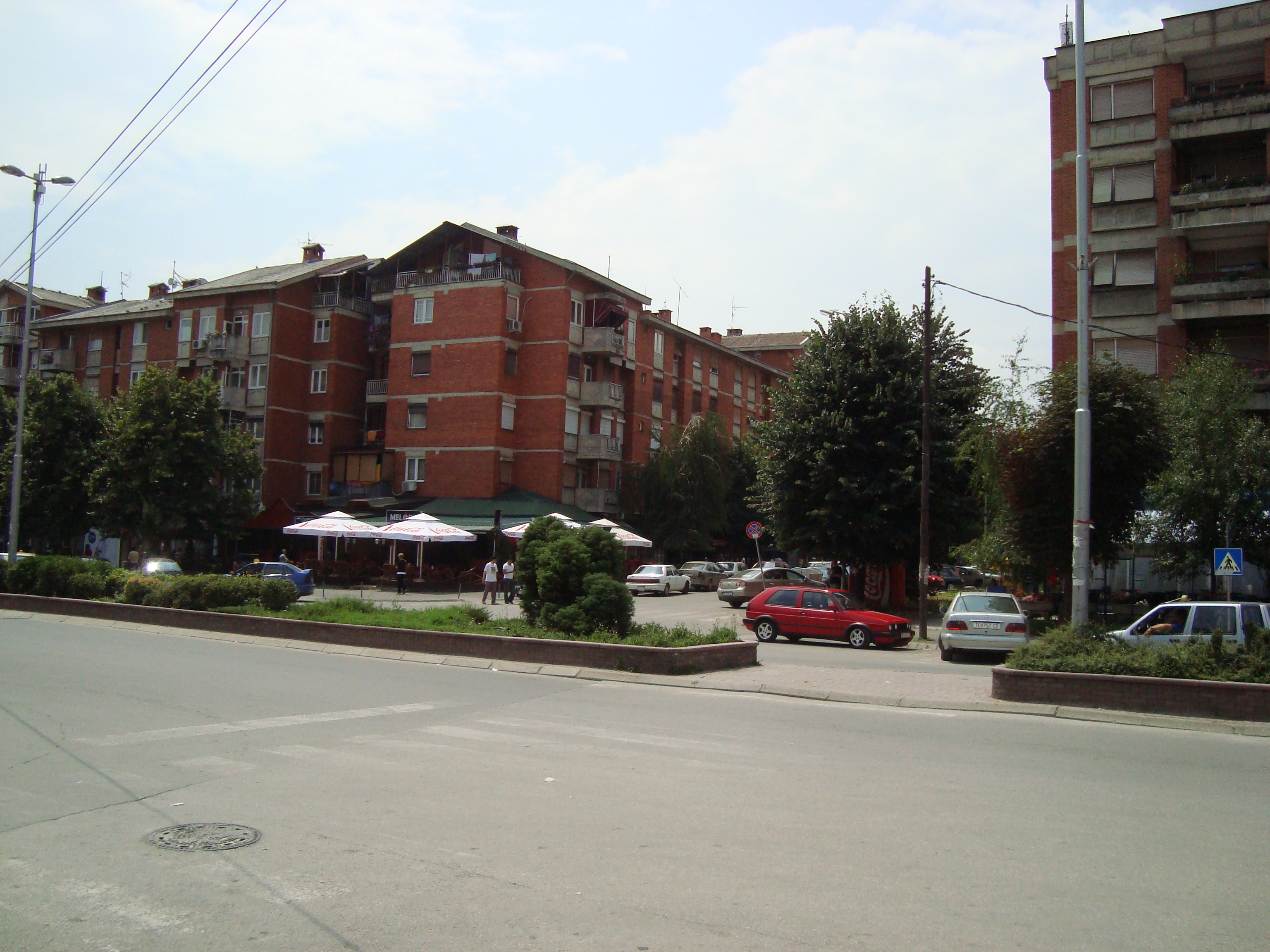 Buildings and streets in Tetovo, Macedonia